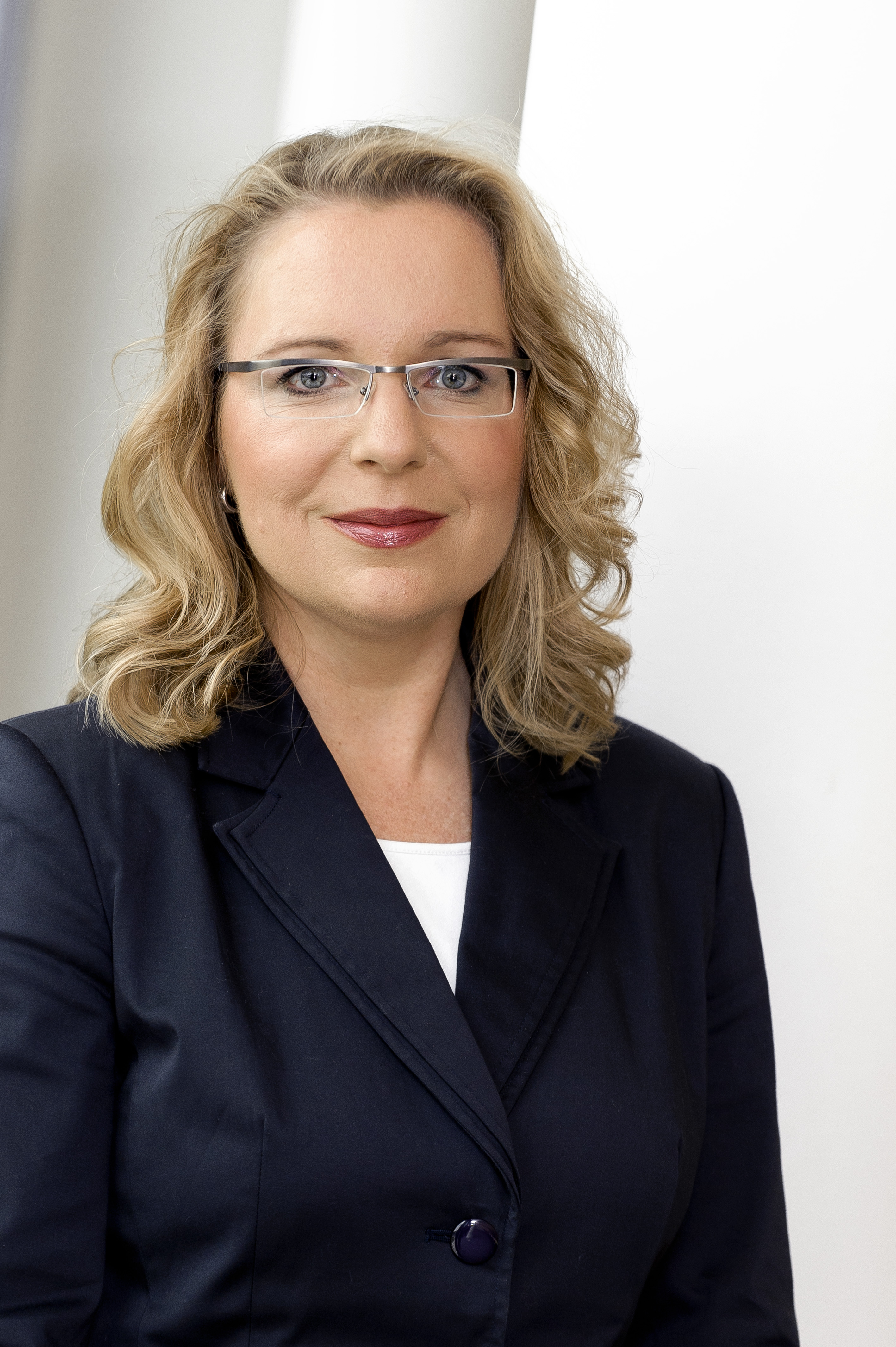 Portrait of Claudia Kemfert in 2011